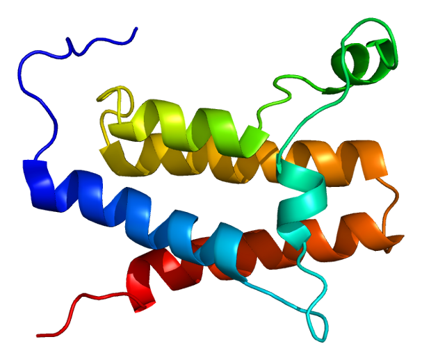 Structure of the SMARCA2 protein. Based on PyMOL rendering of PDB 2dat.